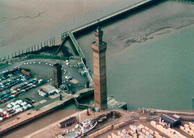 Grimsby Dock Tower Grimsby Dock Tower stands 300 feet high and was built in 1851, originally to provide high pressure water to hydraulic machinery around the lock gates of Grimsby Fish Dock. It is a Grade 1 listed building. Location 53°34'58.25"N, 0° 4'13.68"W For more information on the tower see Link